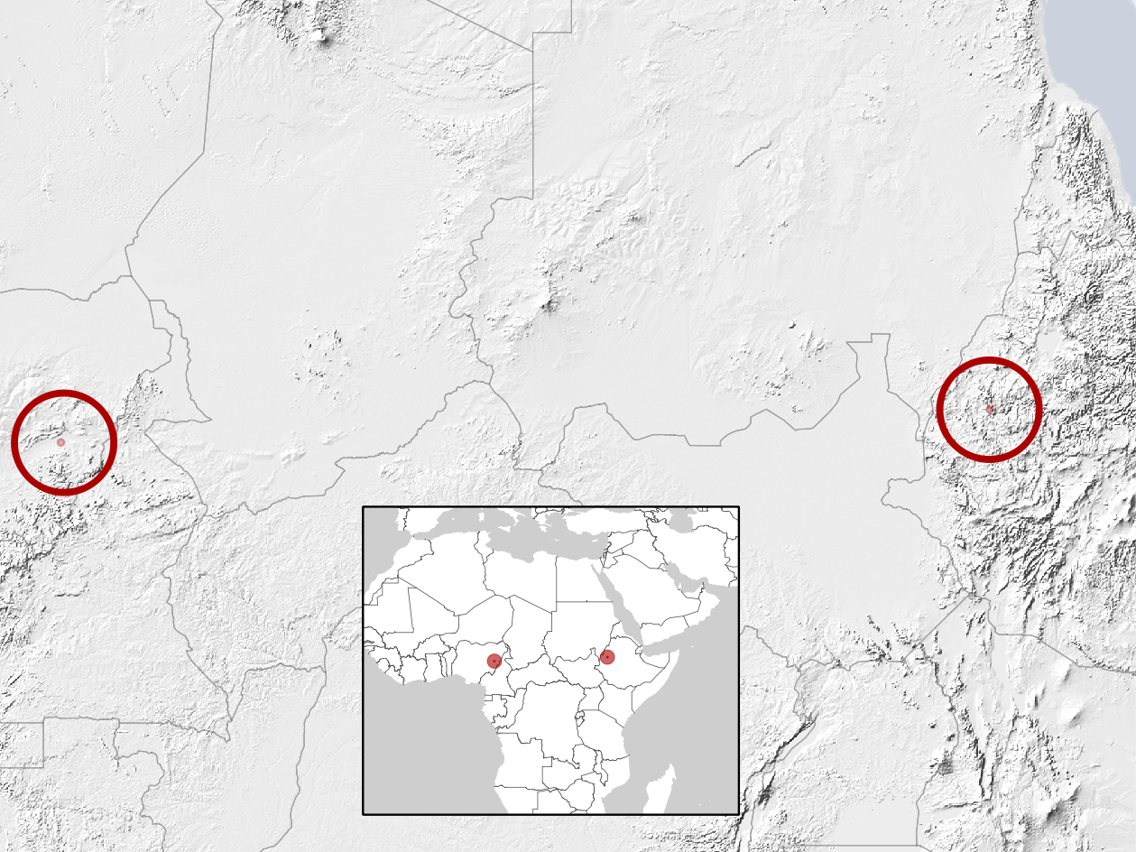 geographic distribution of 'Myotis morrisi